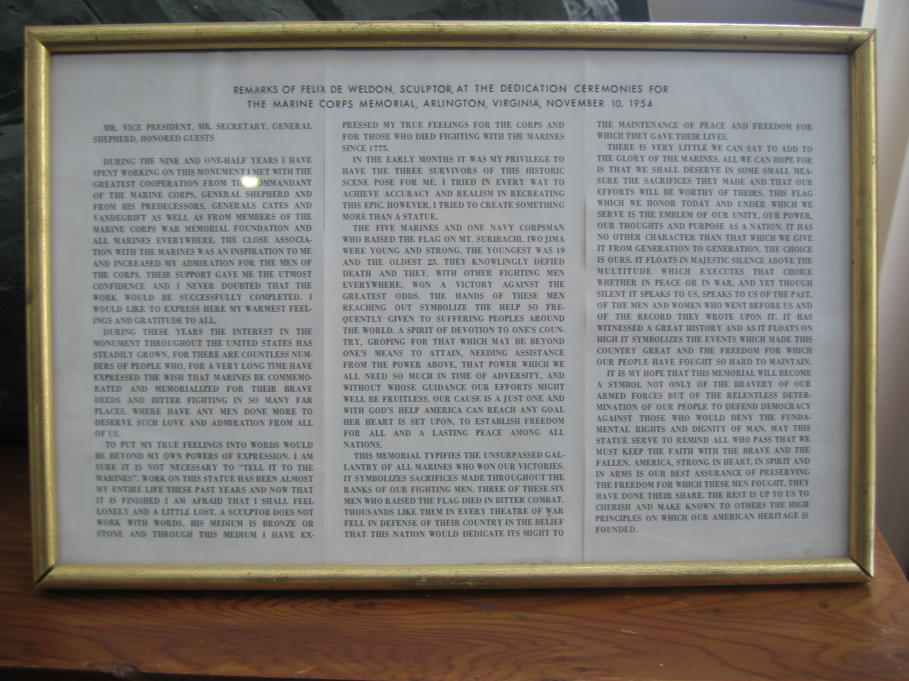 Remarks of Felix de Weldon, sculptor, at the dedication ceremonies for the Marine Corps Memorial, Arlington, Virginia, November 10, 1954. This framed address is located at the model of the Marine Corps War Memorial at the Naval War College, Newport, Rhode Island. Felix de Weldon created this model while developing the Marine Corps War Memorial